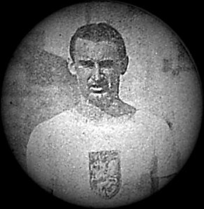 Imre Mudin, Hungarian champion athlete and soldier